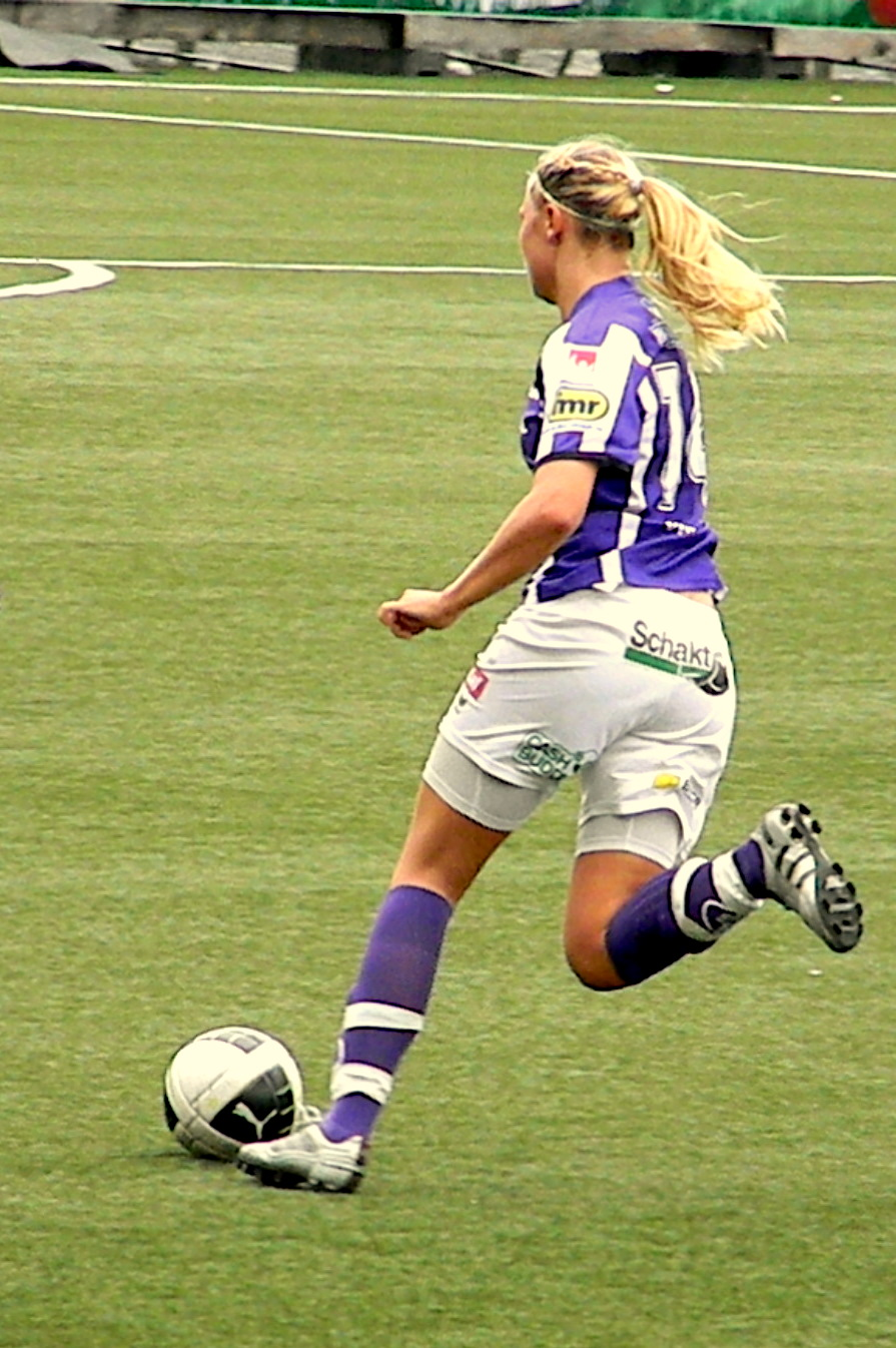 Fridolina Rolfö, a swedish player from Jitex BK